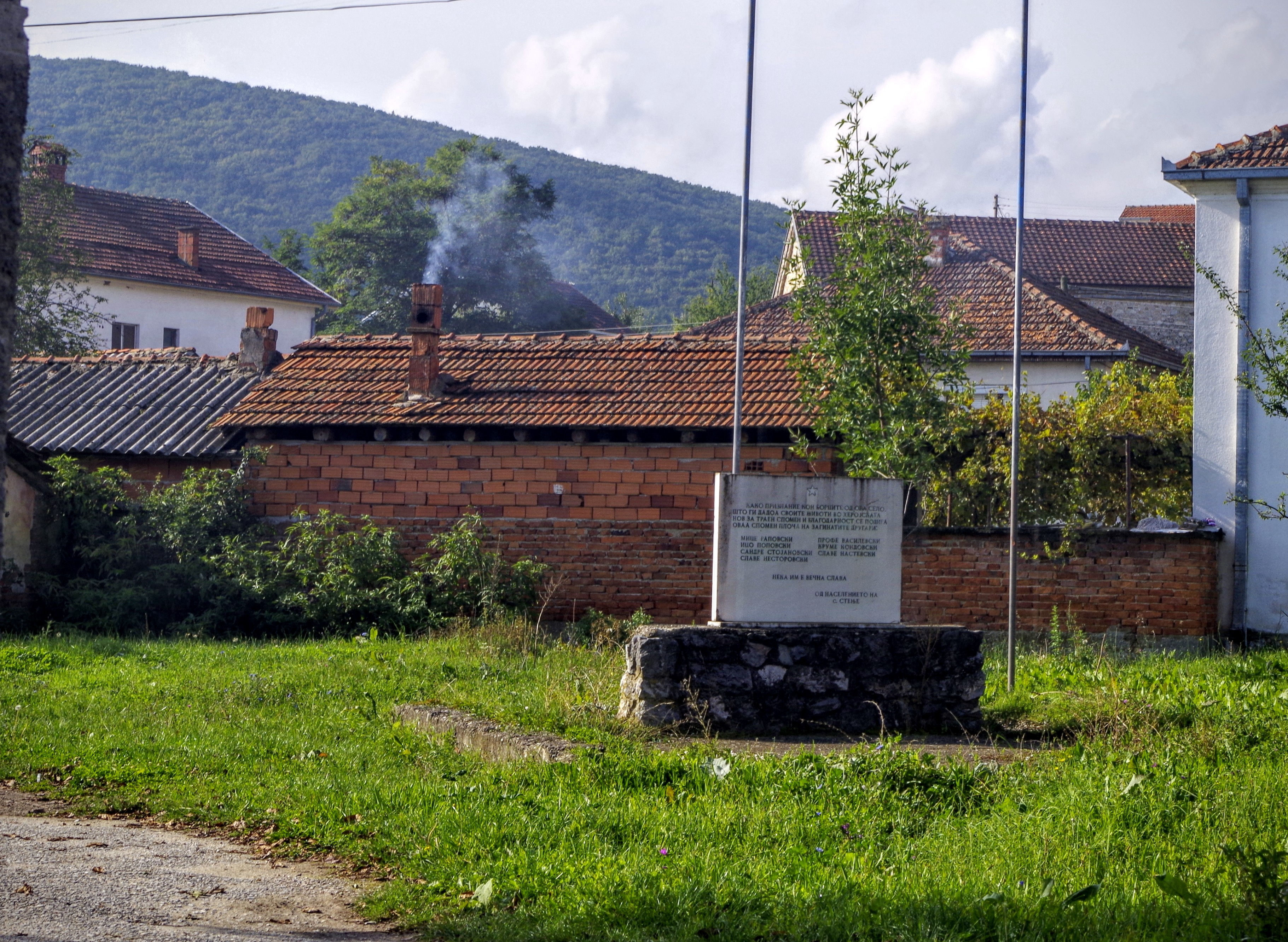 View of a monument in the village Stenje